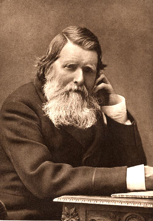 Portrait of John Ruskin (1819-1900), British poet, writer, painter